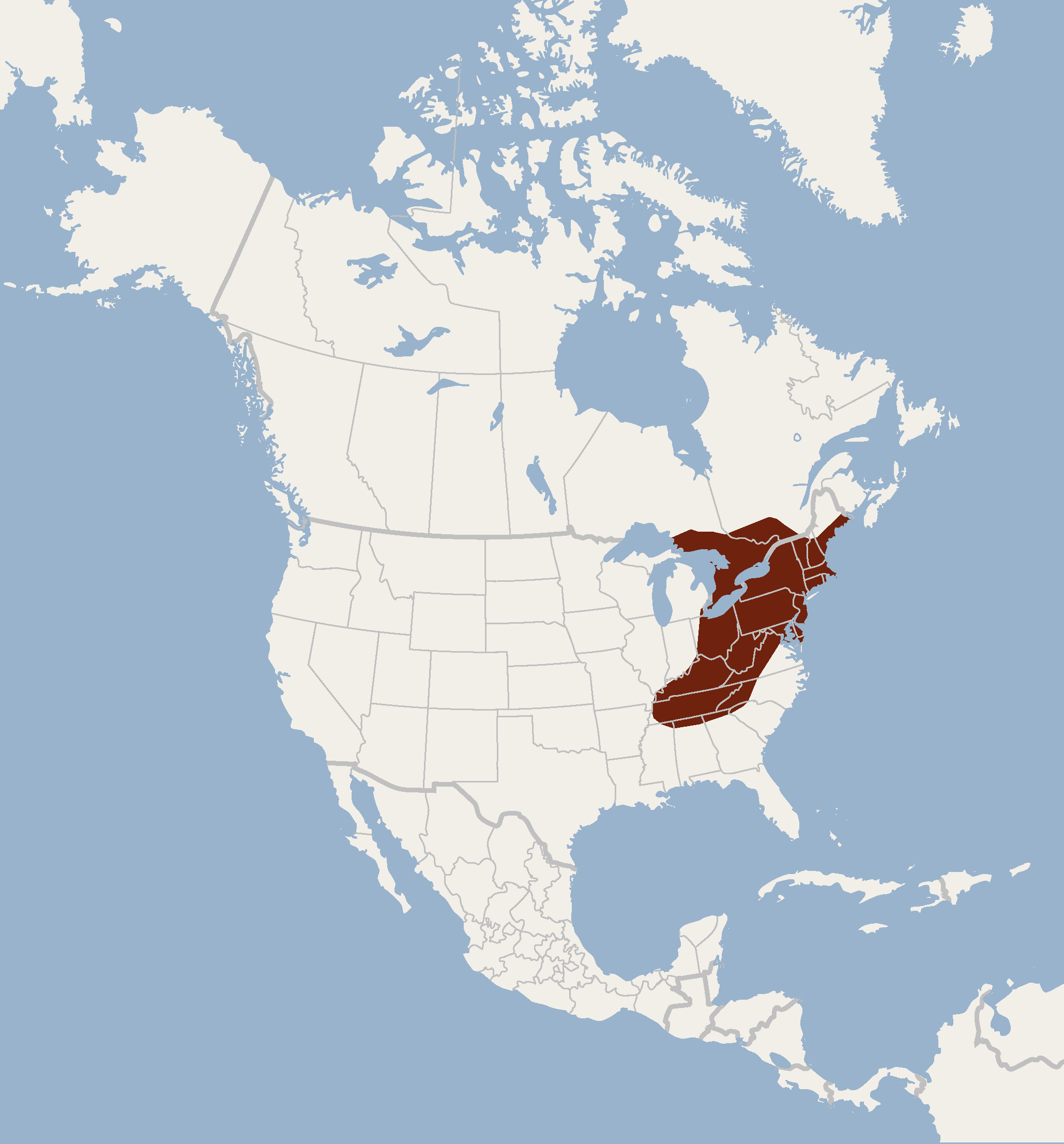 Geographical distribution of Myotis according to Kays & Wilson, 2009